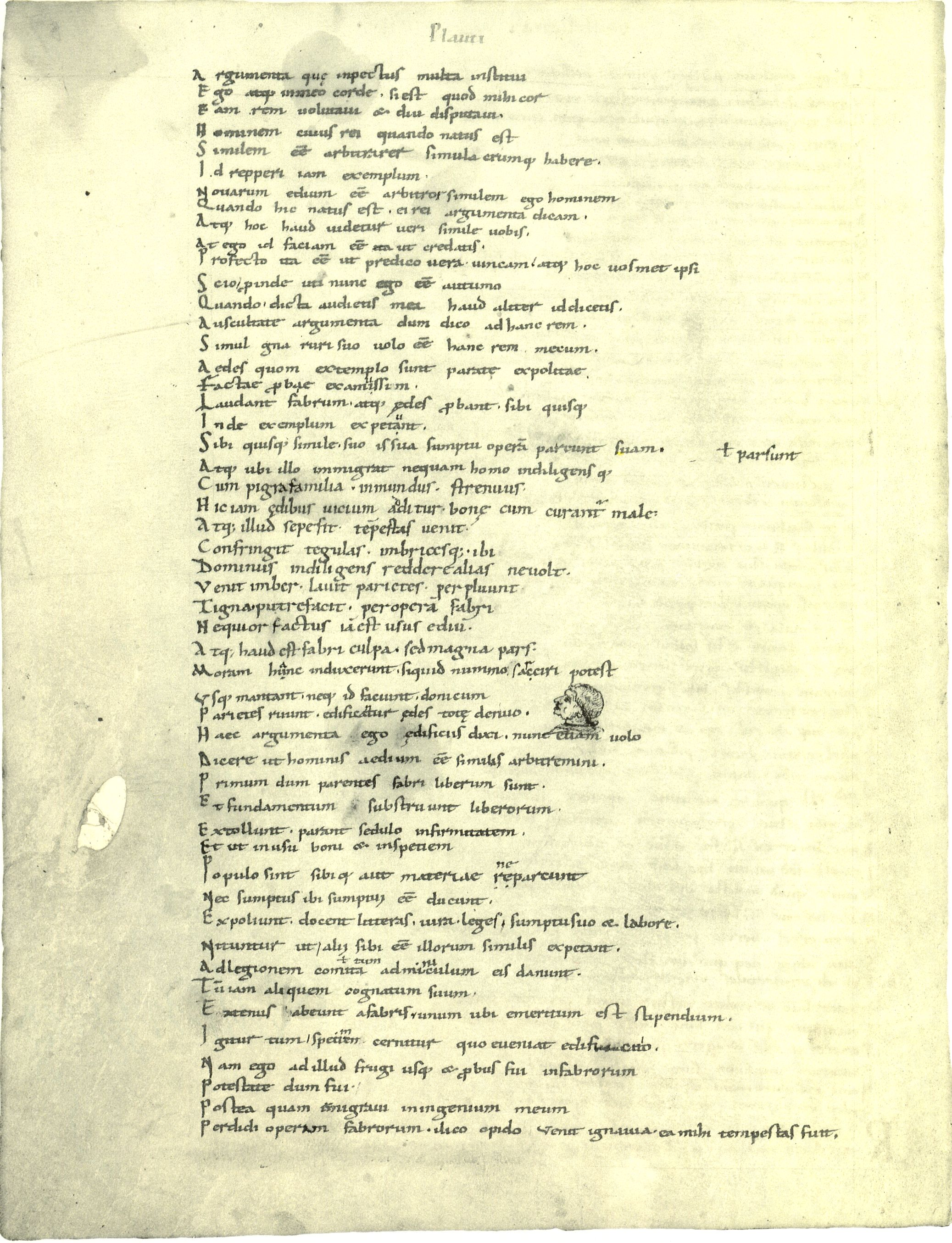 Plautus, Mostellaria, verses 85-137, in ms. Biblioteca Apostolica Vaticana, Vaticanus Palatinus lat. 1615, fol. 87v.